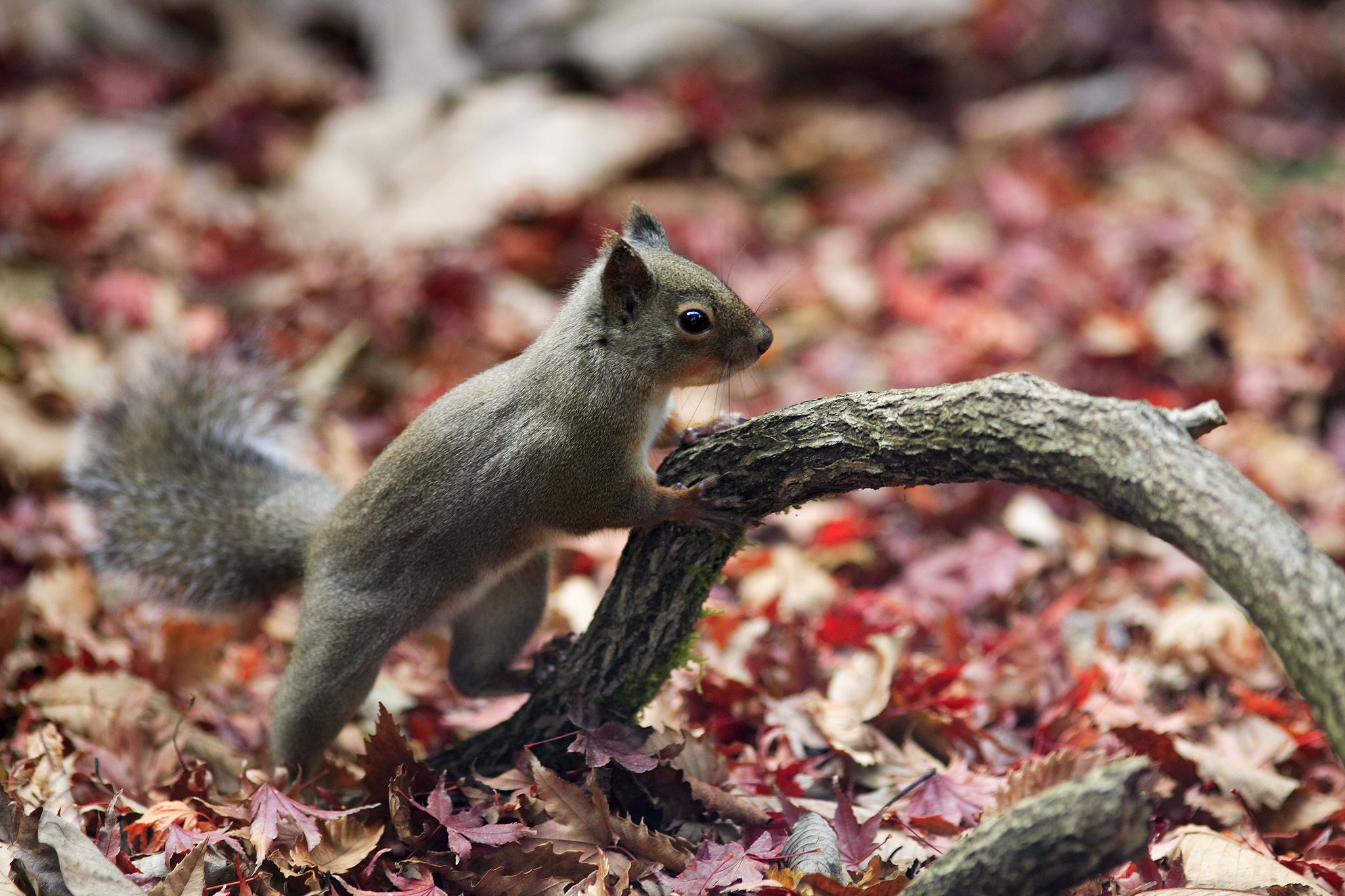 Japanese Squirrel.